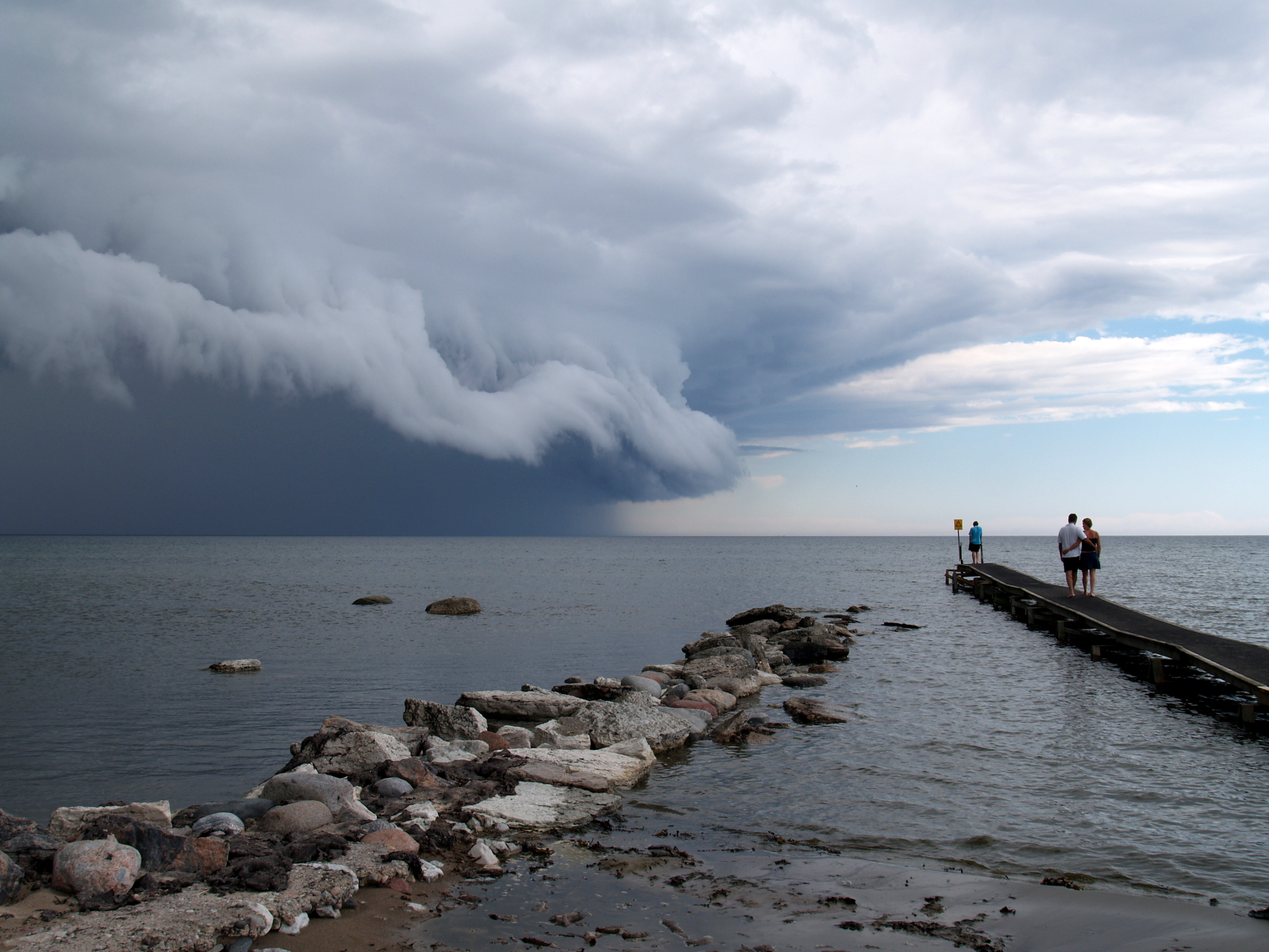 Cumulonimbus cloud at the Baltic Sea near island of Öland, Sweden.